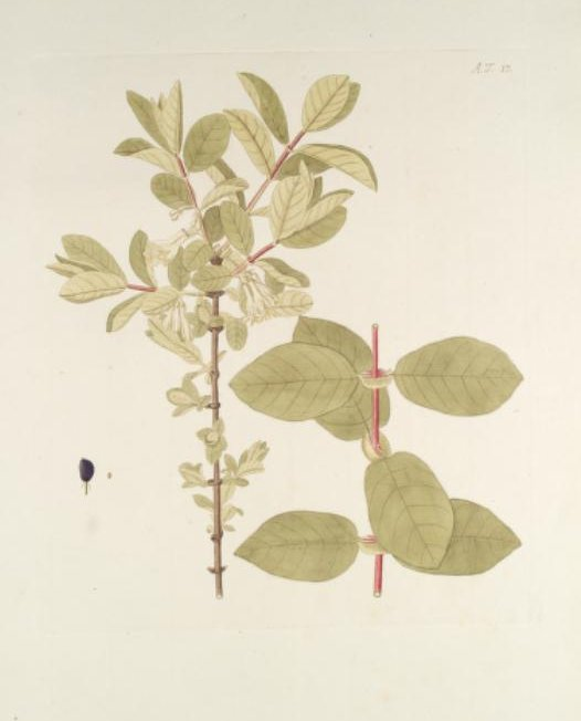 Illustration of Lonicera caerulea